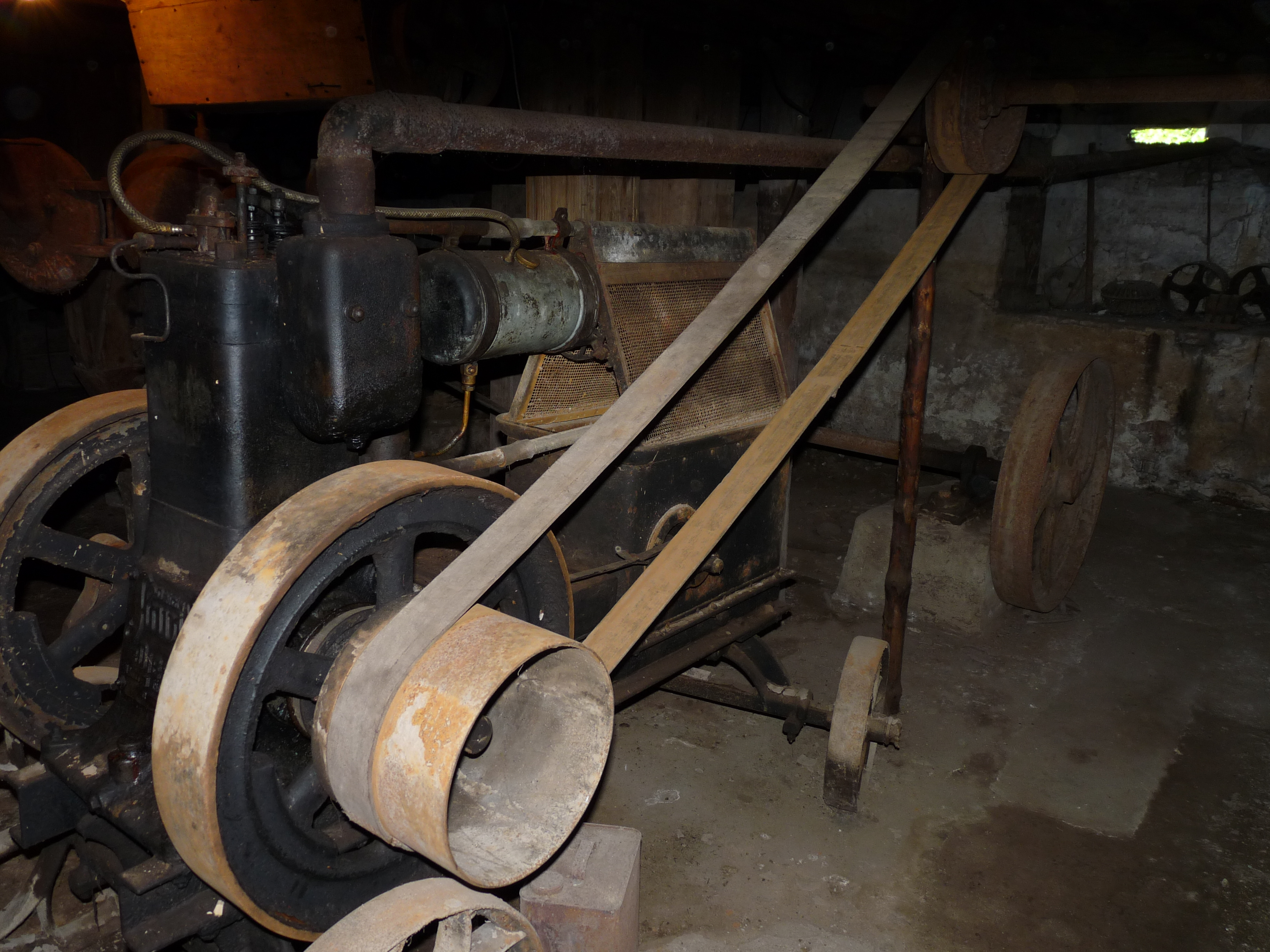 Rosenauerův mlýn (Rosenauer mill) in Velké Hydčice near Horažďovice, Klatovy District, Czech Republic.